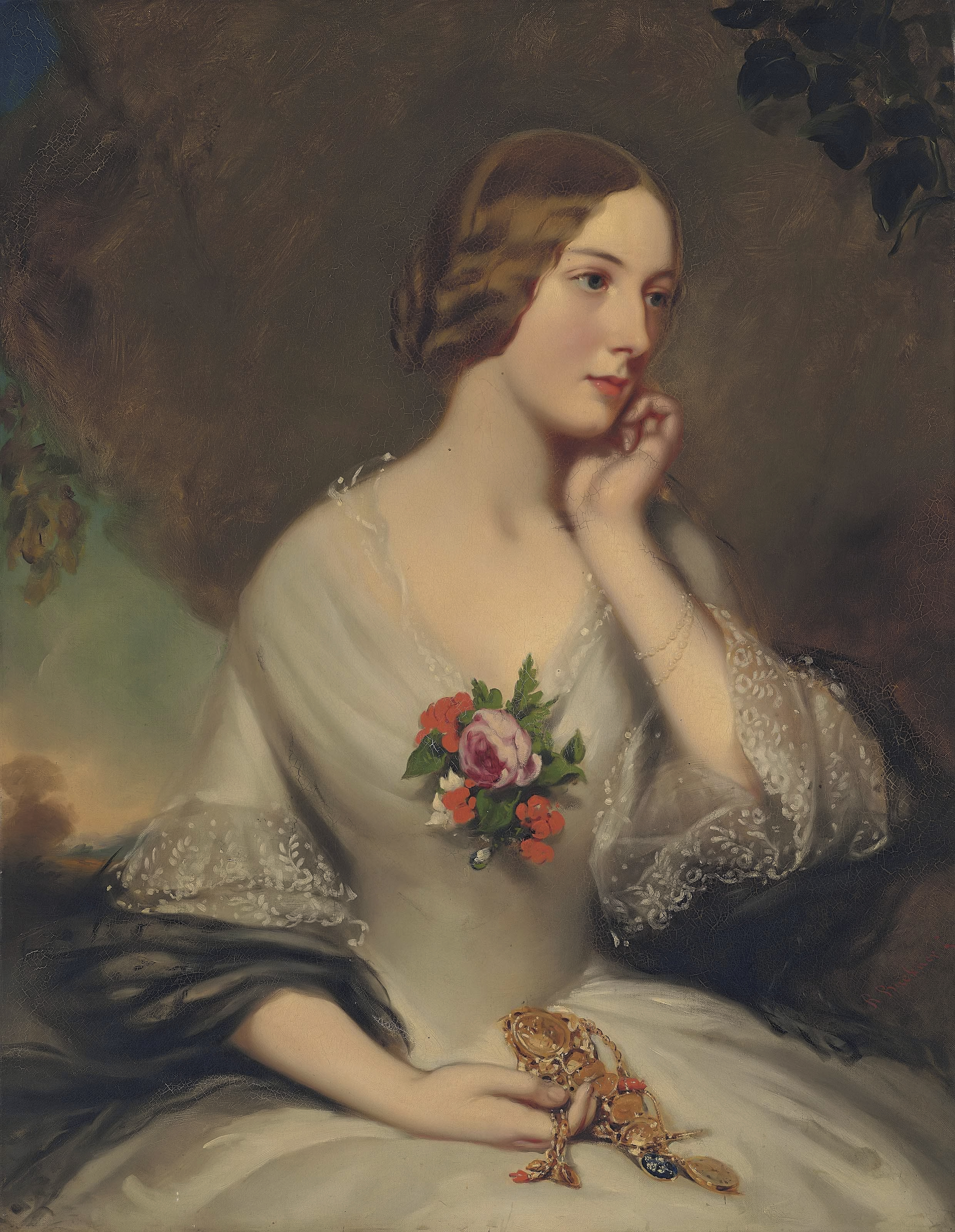 Elizabeth Baring, née Sturt (1827-1867), wife of Thomas George Baring, 1st Earl of Northbrook